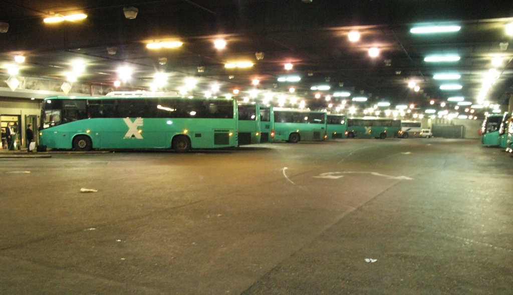 Interior of the Jerusalem Central Bus Station's 3rd floor and departure terminal.